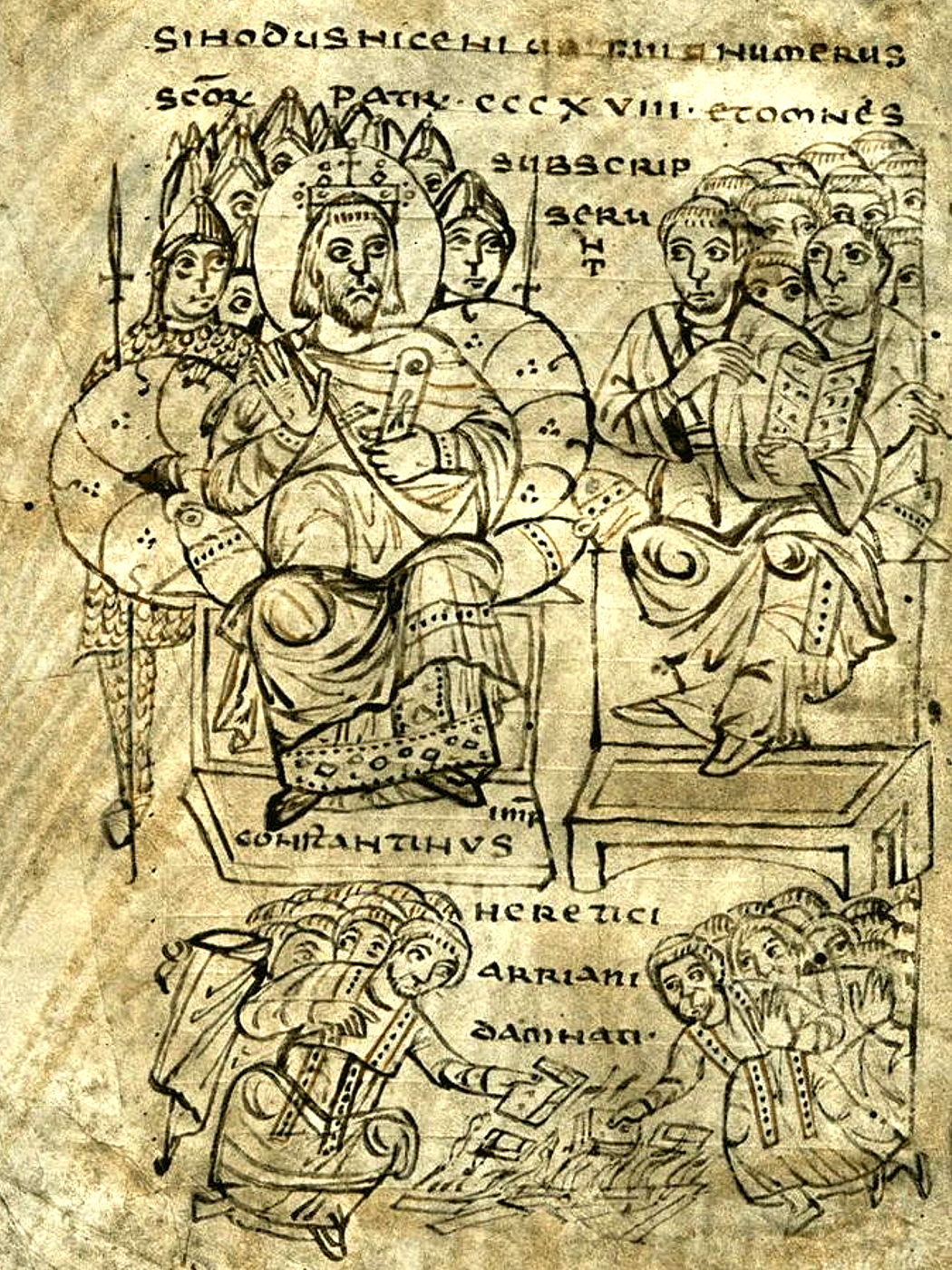 Emperor Constantine and the Council of Nicaea. The burning of Arian books is illustrated below. Drawing on vellum. From MS CLXV, Biblioteca Capitolare, Vercelli, a compendium of canon law produced in northern Italy ca. 825. Text: "Sinodus Niceni u[bi?] [f?]ui[t?] numerus / s[an]c[t]o[rum] patr[um] . CCCXVIII . et omnes / subscrip/seru/n/t." "Constantinus imp(erator)". "Heretici / Arriani / damnati" Translation: "[of?] the synod of Nicaea [where the] number / of holy fathers [was] 318 [.] and all / subscribed." "Constantine the emperor." "Arian heretics condemned."